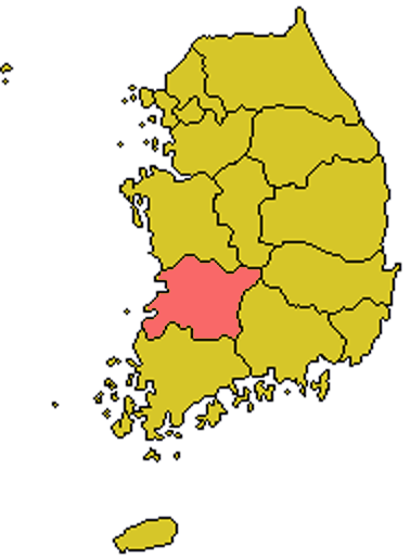 Diocese of Jeonju